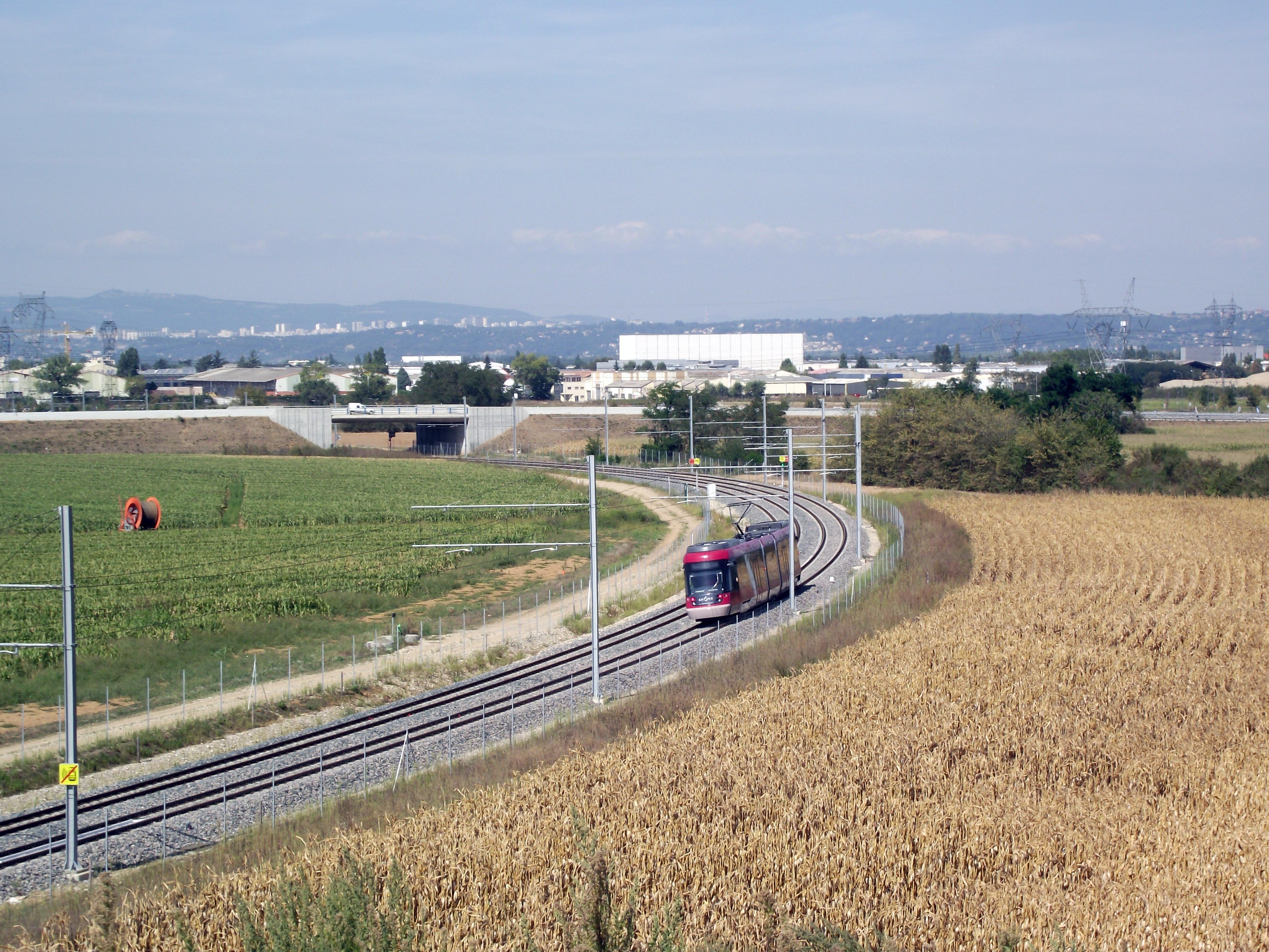 The Rhônexpres coming in at Meyzieu Z.I.